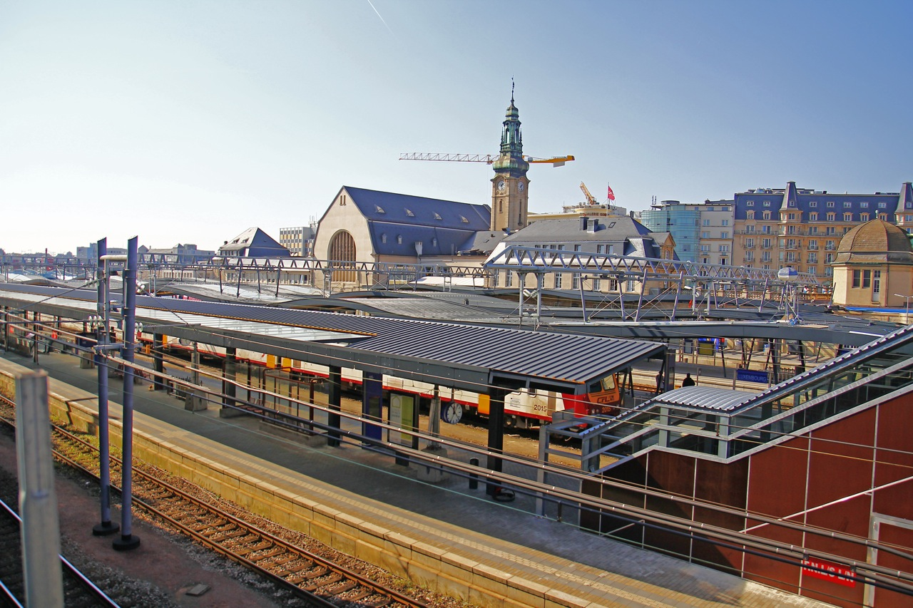 Trainstation Luxembourg City